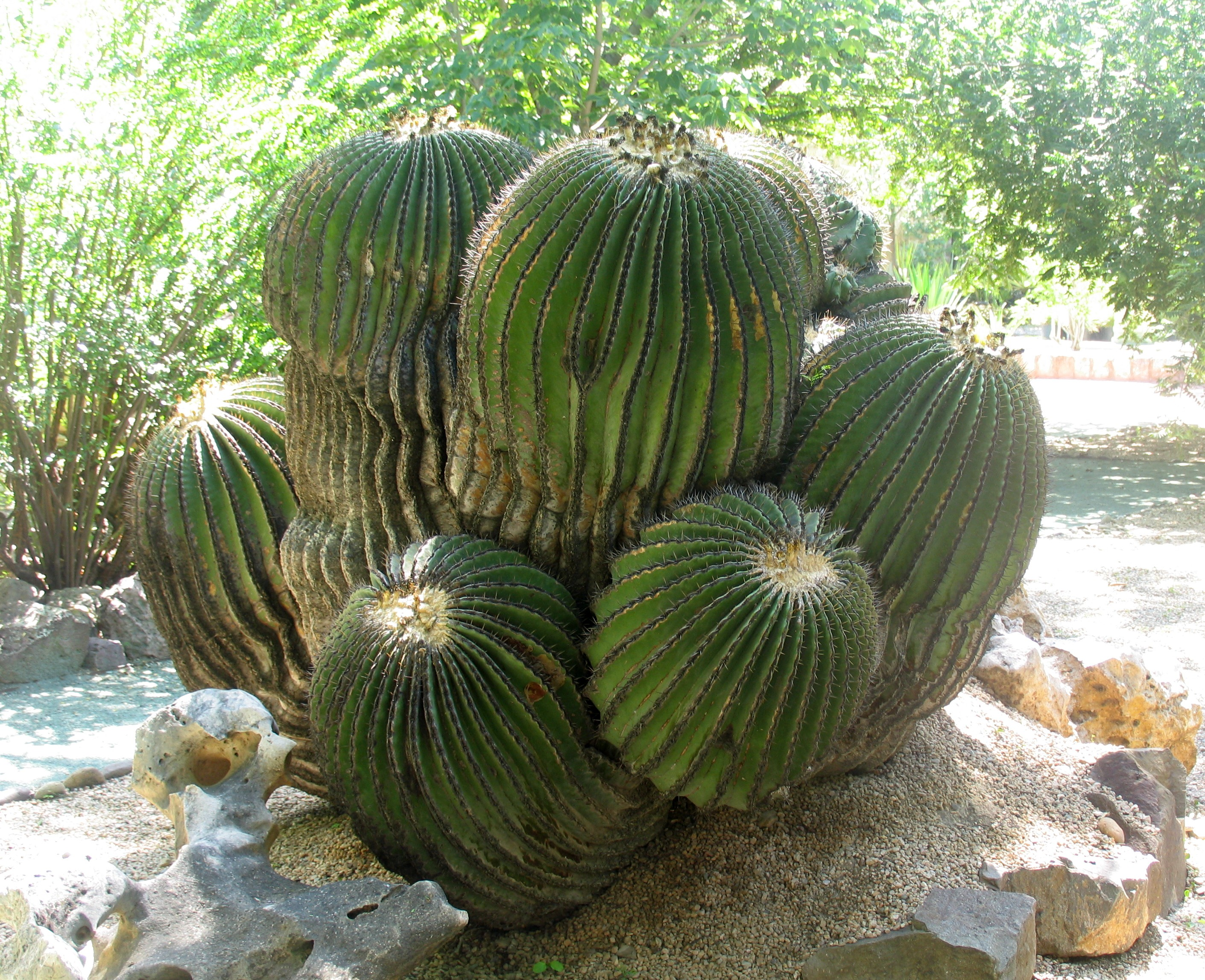 This was an extremely large cactus, believed to be over 1,000 years old. It was saved from a road construction project.